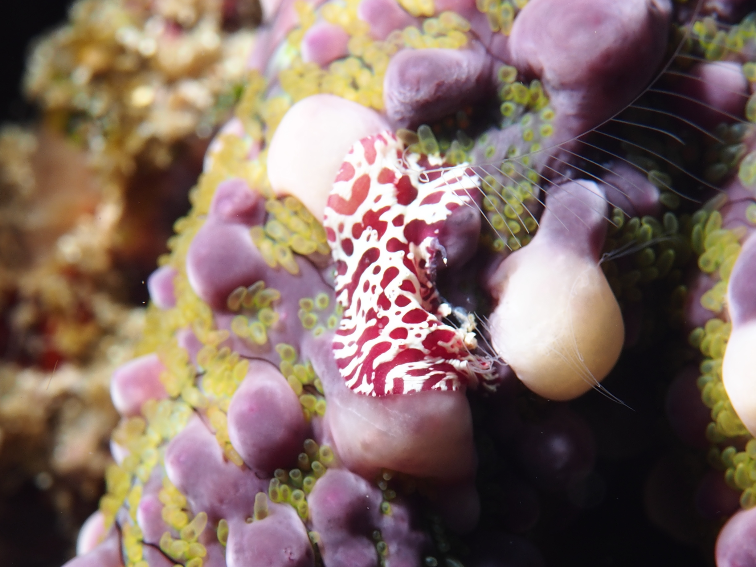 Lembeh, Indonesia - Coeloplana astericola